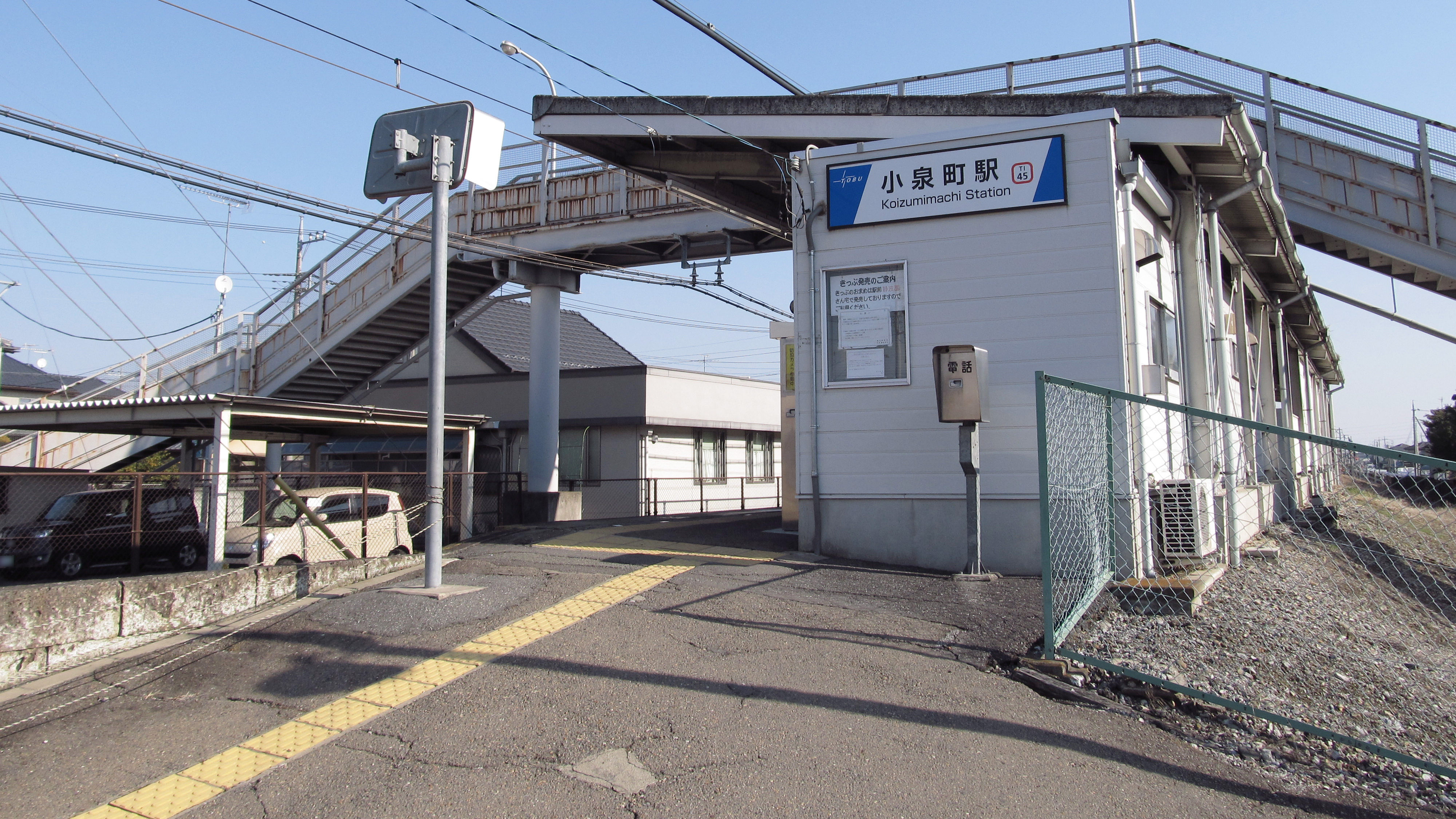 The entrance to Koizumimachi Station on the Tobu Railway Koizumi Line in Ōizumi town, Gumma prefecture, Japan